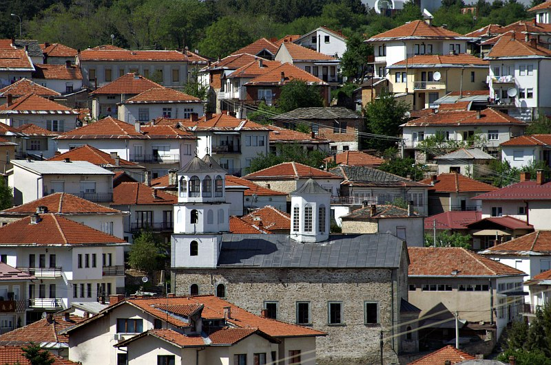 View of Krushevo